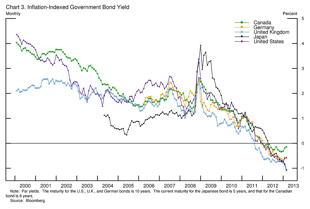 Yield chart of selected Inflation-Indexed Government Bonds